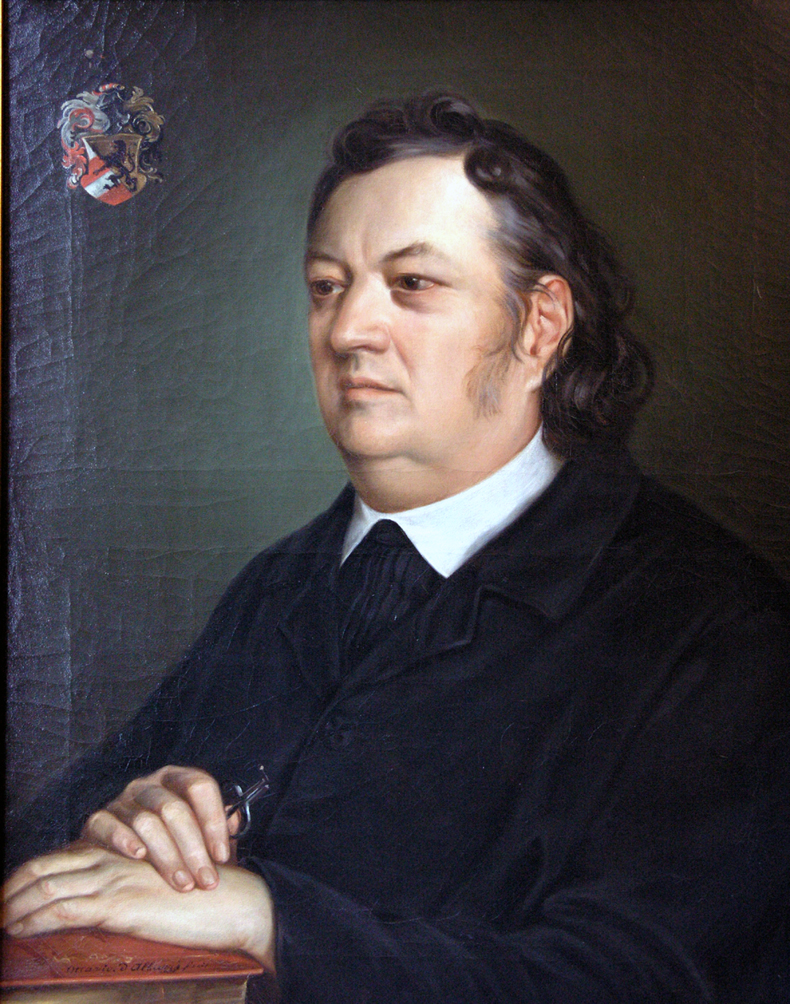 Justinus Kerner on a 1852 painting by Ottavio d'Albuzzi